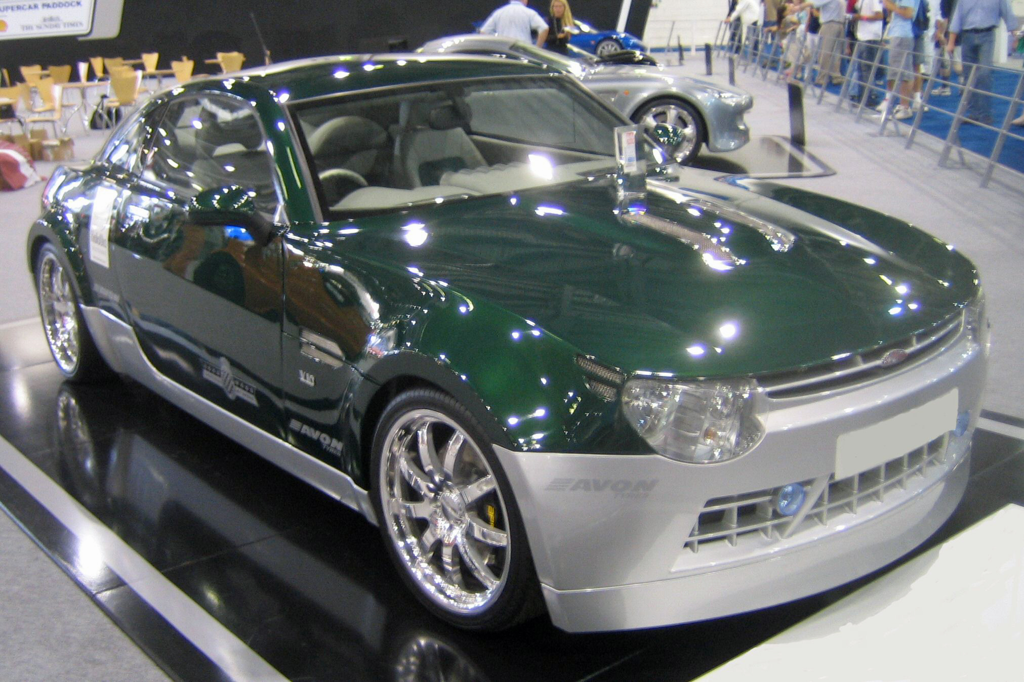 Connaught Type D Syracuse sports car at the Excel Motor Show in London, July 2006.